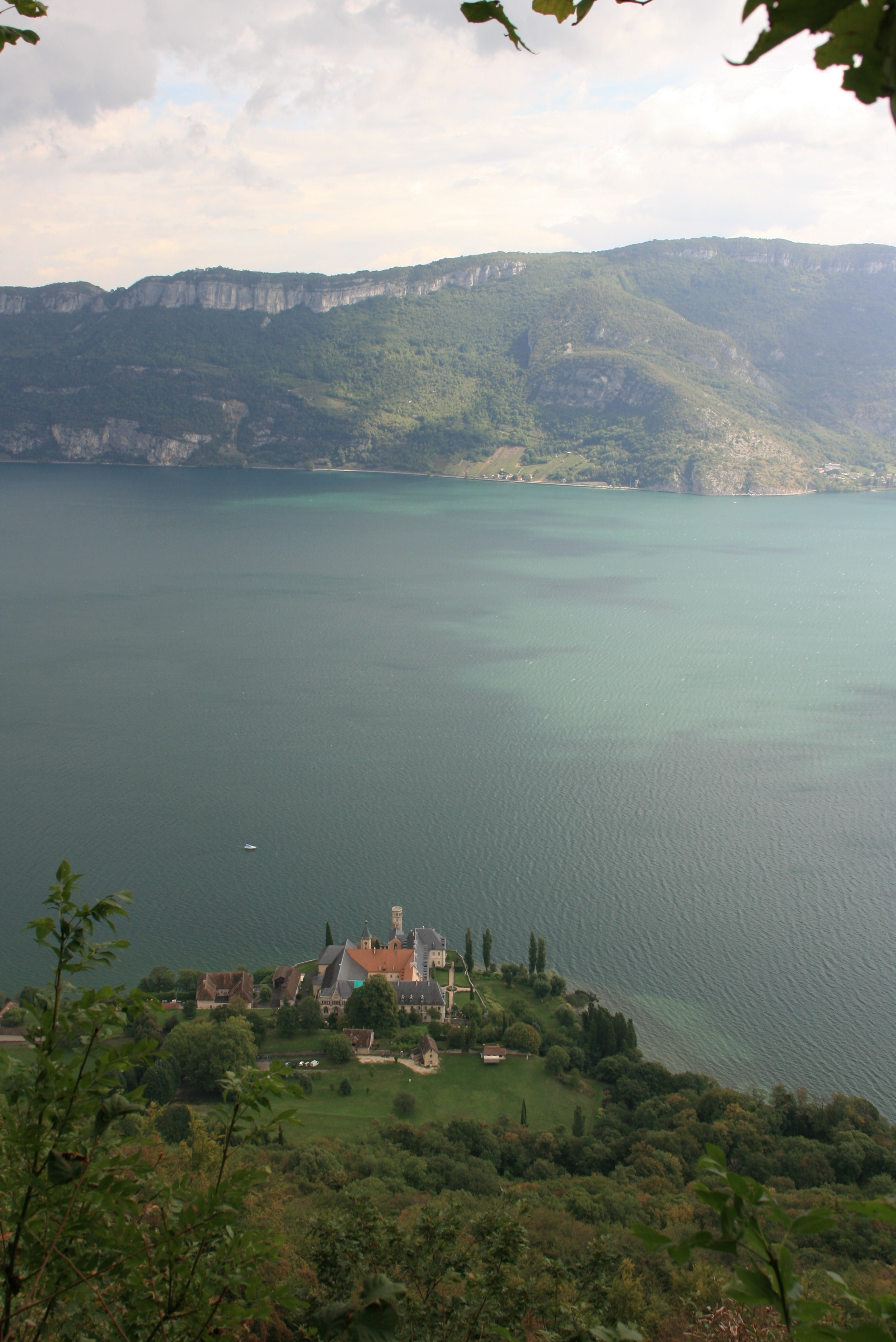 Abbaye of Hautecombe and the Lake of Bourget.